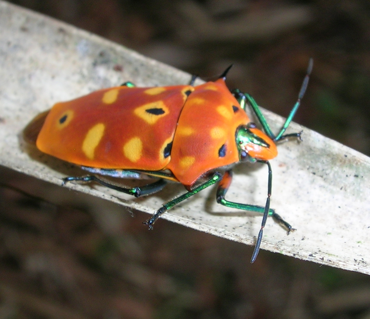 Cantao ocellatus, Scutelleridae, determination by L. Shyamal based on W L Distant's Fauna of British India. Rhynchota. Specimen seen in Wynaad, Kerala